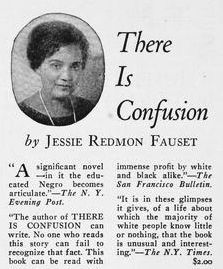 Image:Thereisconfusion.jpg cropped and enhanced by color